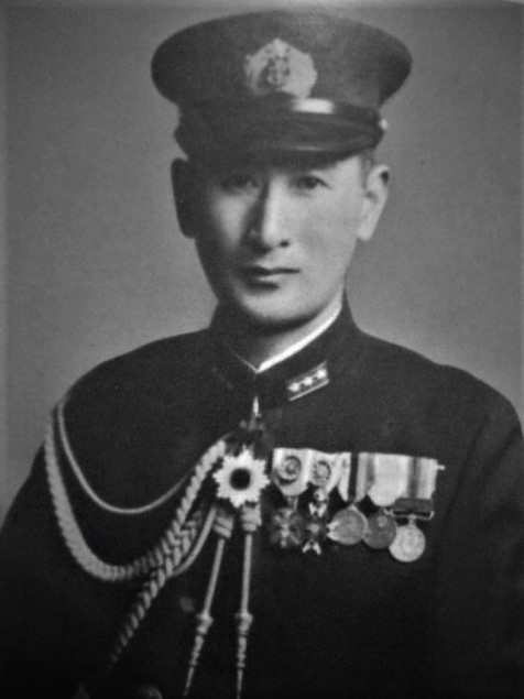 Major General of Imperial Japanese Navy Eiitirou Jyou